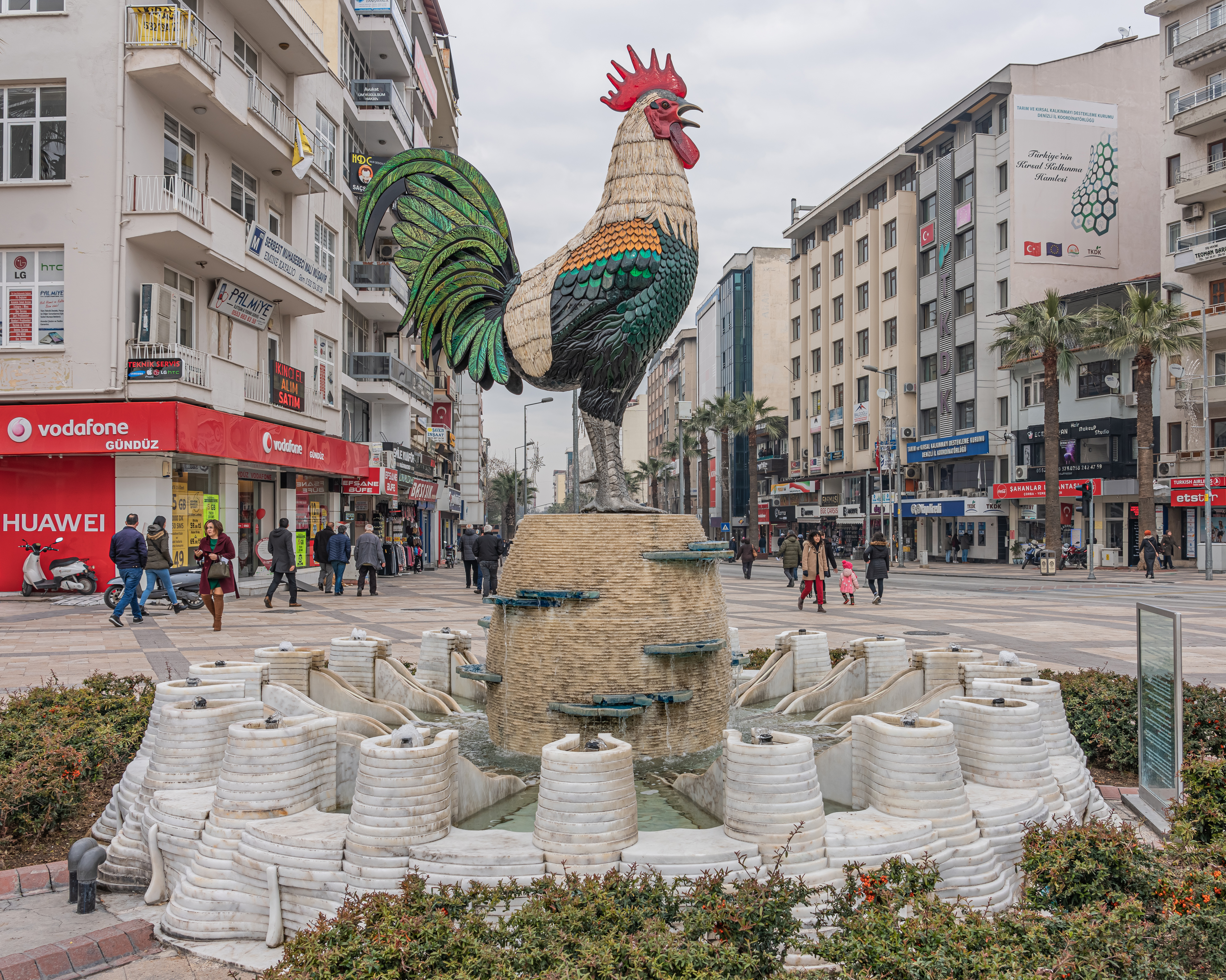 Statue of the Rooster – city symbol in Denizli, Turkey